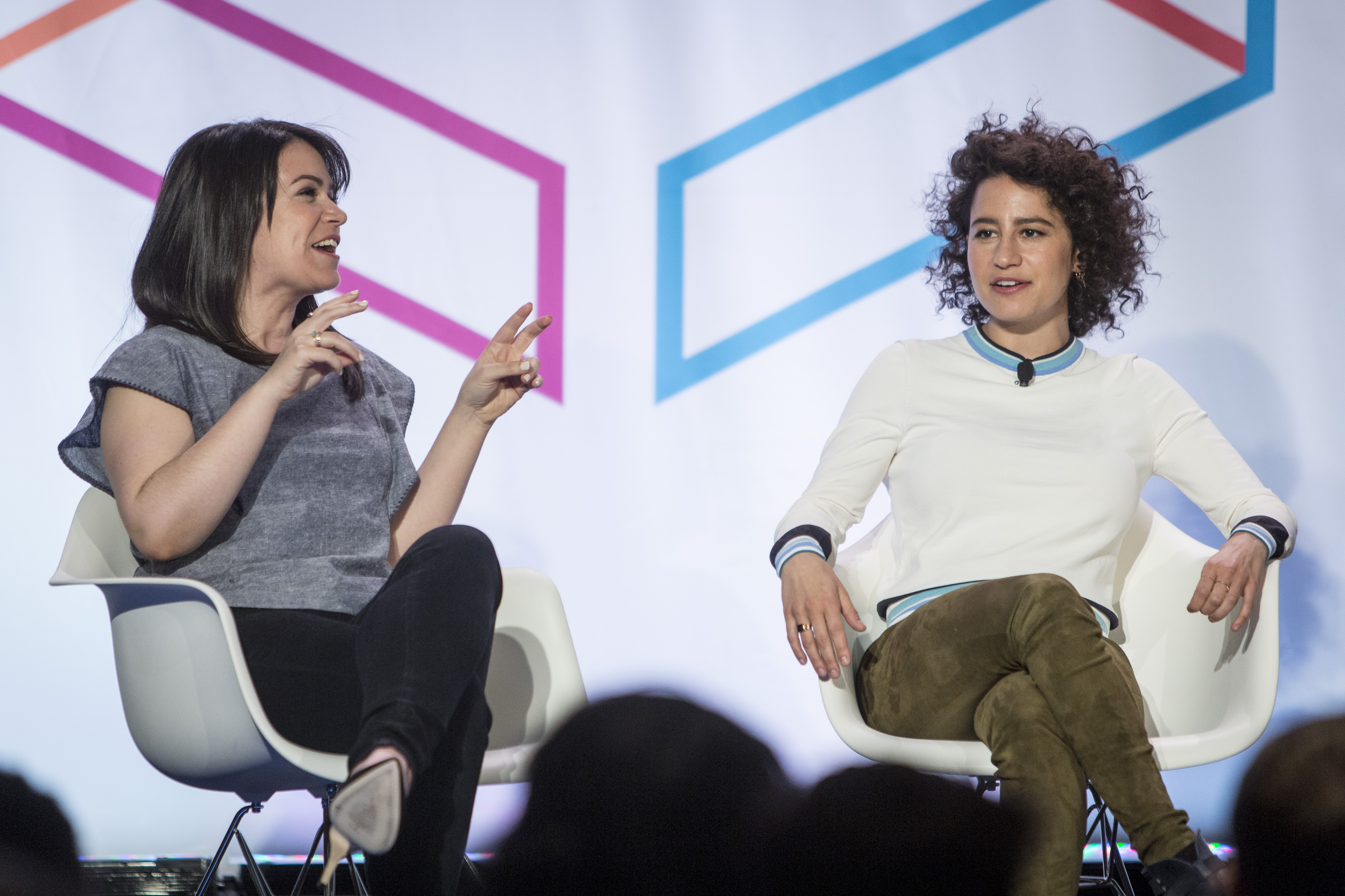 Marie Claire Editor in Chief Anne Fulenwider interviews Broad City's Abbi Jacobson and Ilana Glazer on the YP Stage on Day 1 of Internet Week New York May 18, 2015. INSIDER IMAGES/Gary He